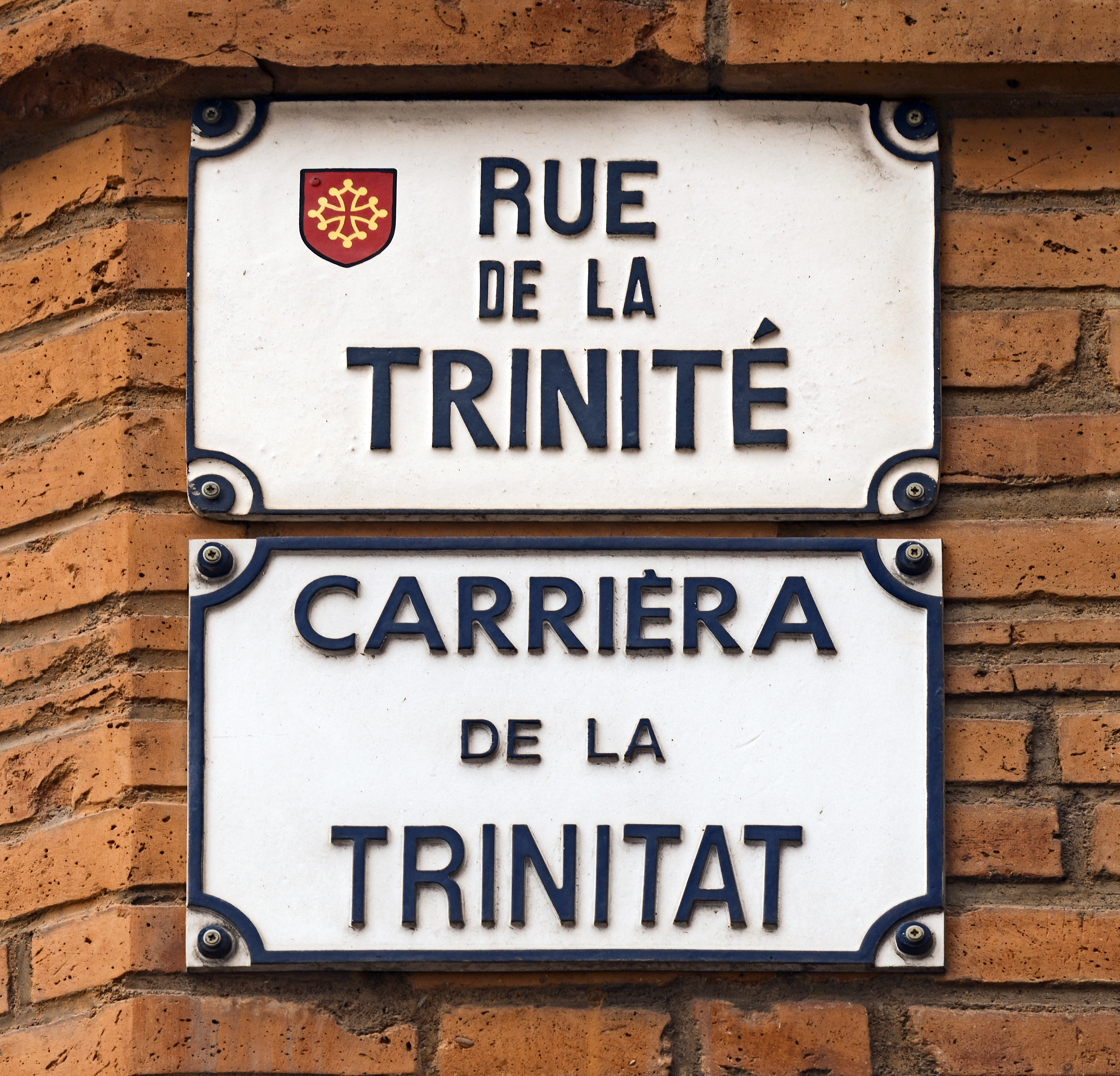 Rue de la Trinité, in Toulouse - Street name sign. They have the particularity of being: in French and Occitan.